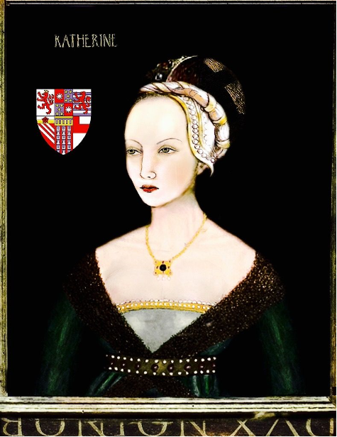 Catherine Woodville, Duchess of Buckingham/Bedford, Countess of Pembroke, etc.; along with the Woodville Arms.